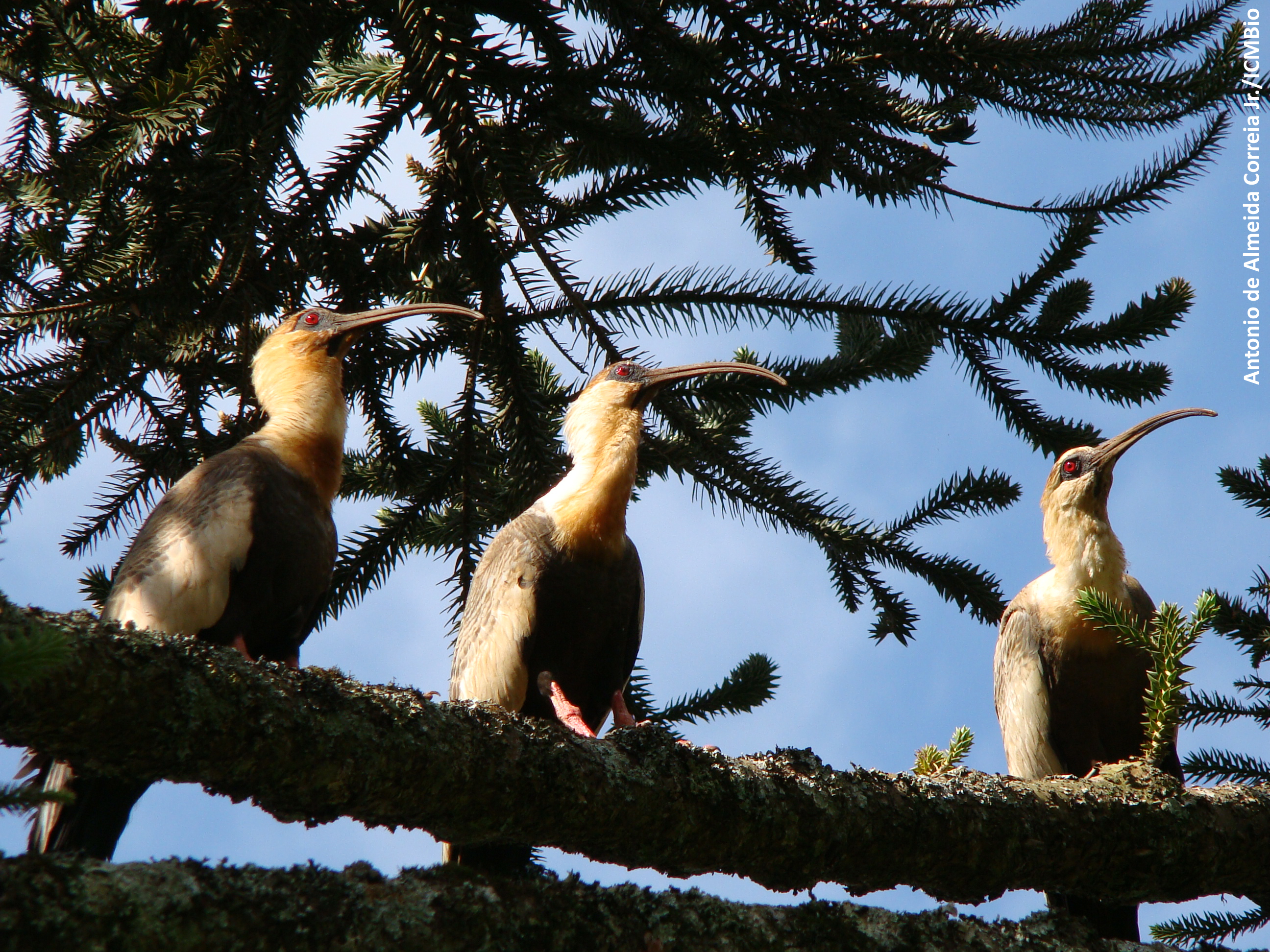 Curicacas em uma araucária.